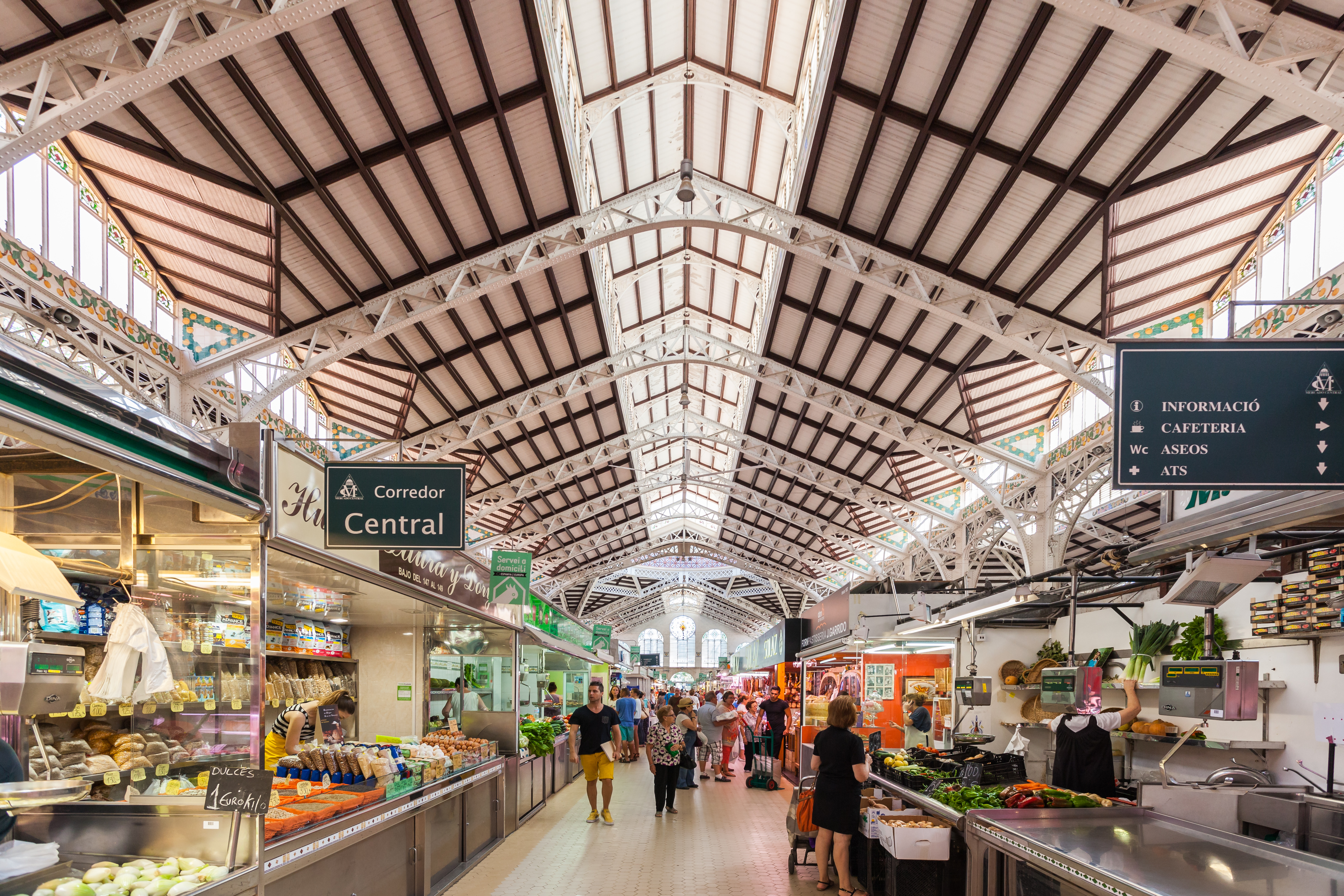 Central Market, Valencia, Spain